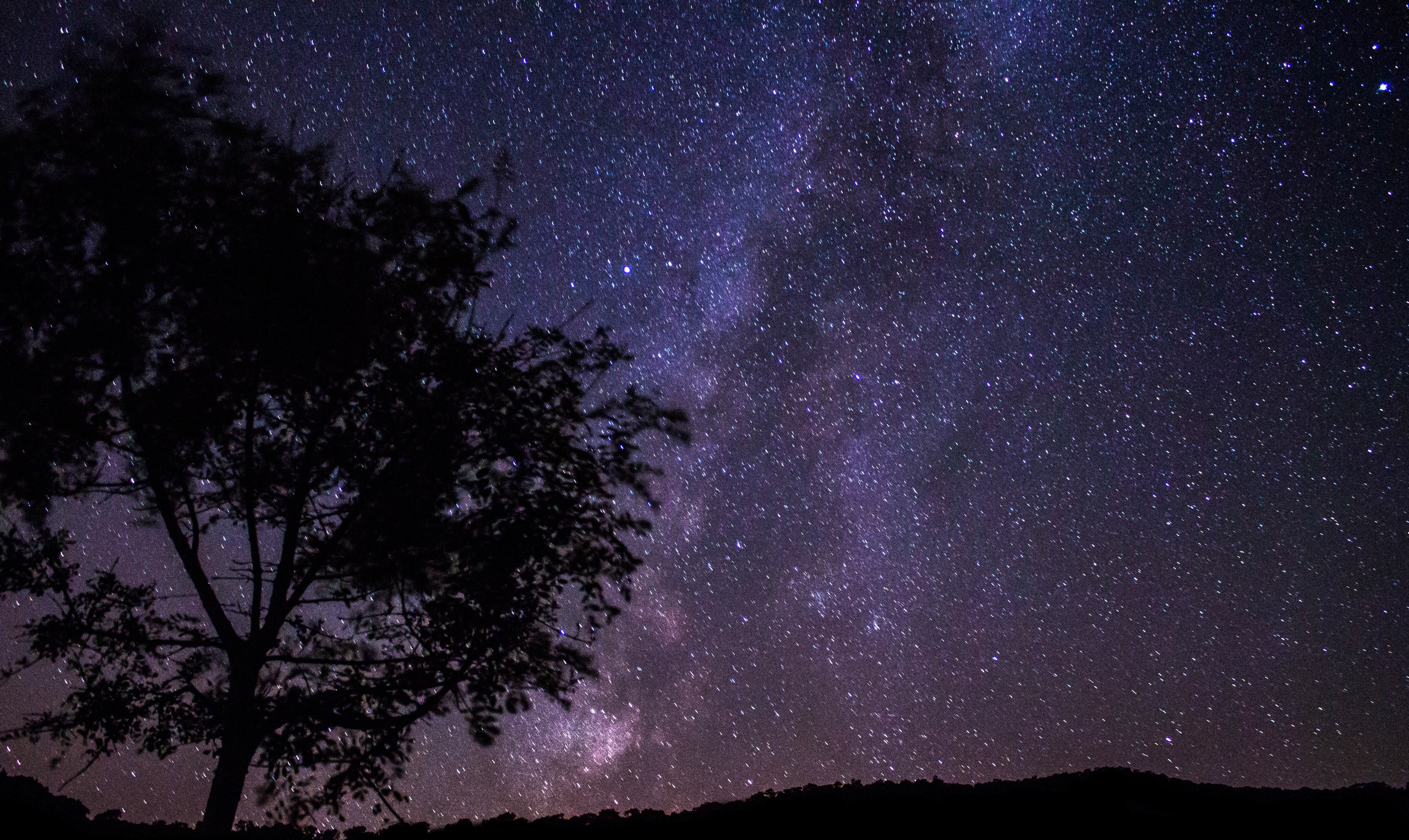 Milkey way from provence of Annaba, locality of Barbar, district of Seraïdi, province of Annaba, Idough mountain near Rihanna Beach